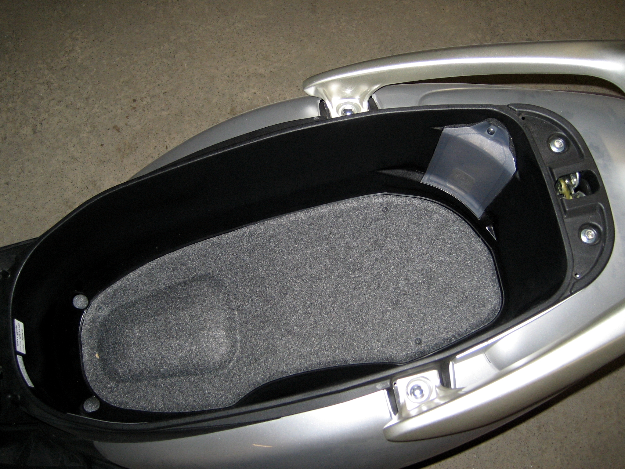 Honda SCV 110 Lead motor scooter (108 cc) has plenty of storage space under the rider's seat. Note the absence of a fuel tank, as it is placed under the floorboard. This scooter was manufactured February 2008 in China.